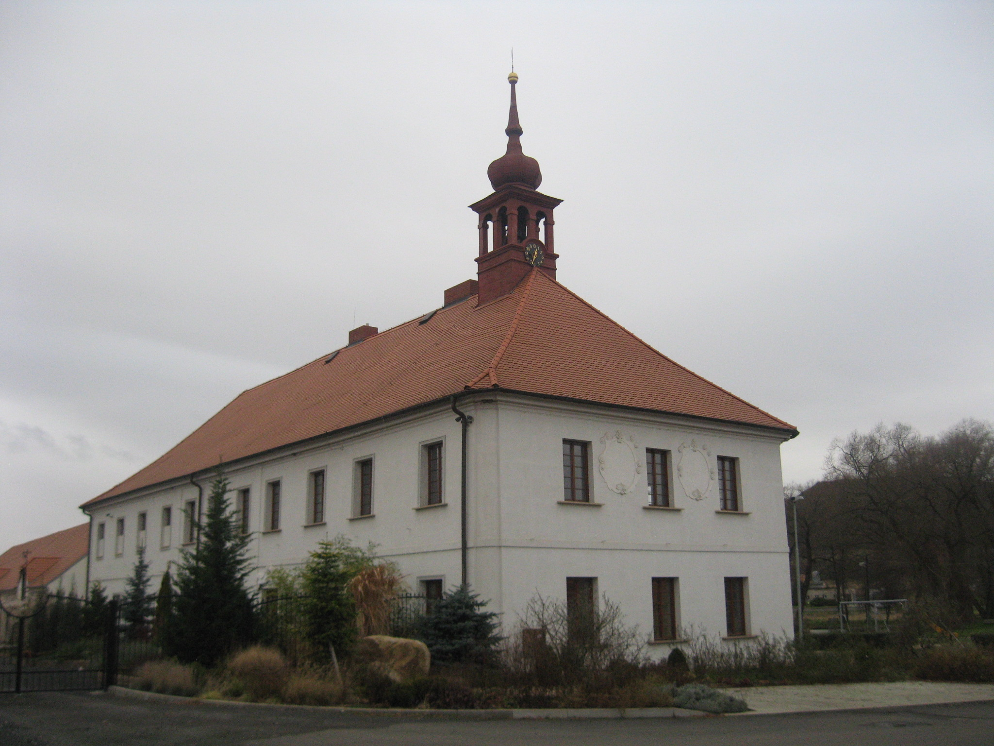 Castle in Blšany